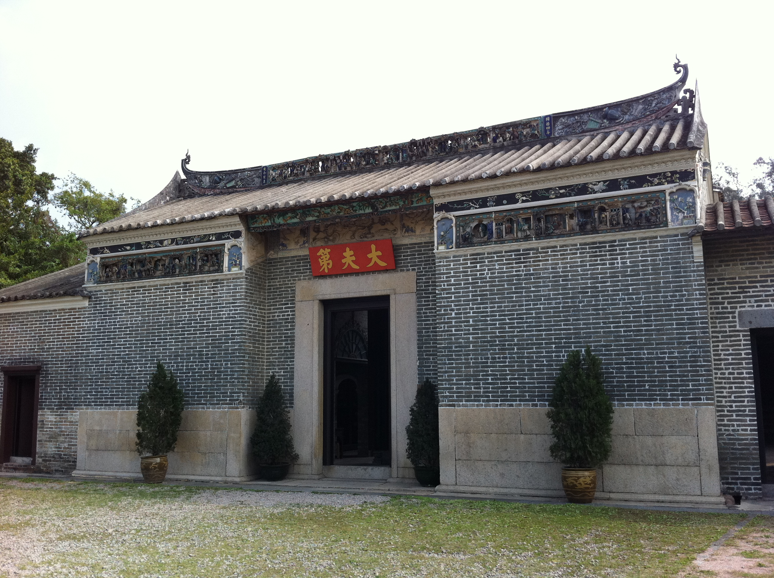 Tai Fu Tai, a mansion of a high-ranking official in Qing Dynasty, is a historical monument in Hong Kong. - more